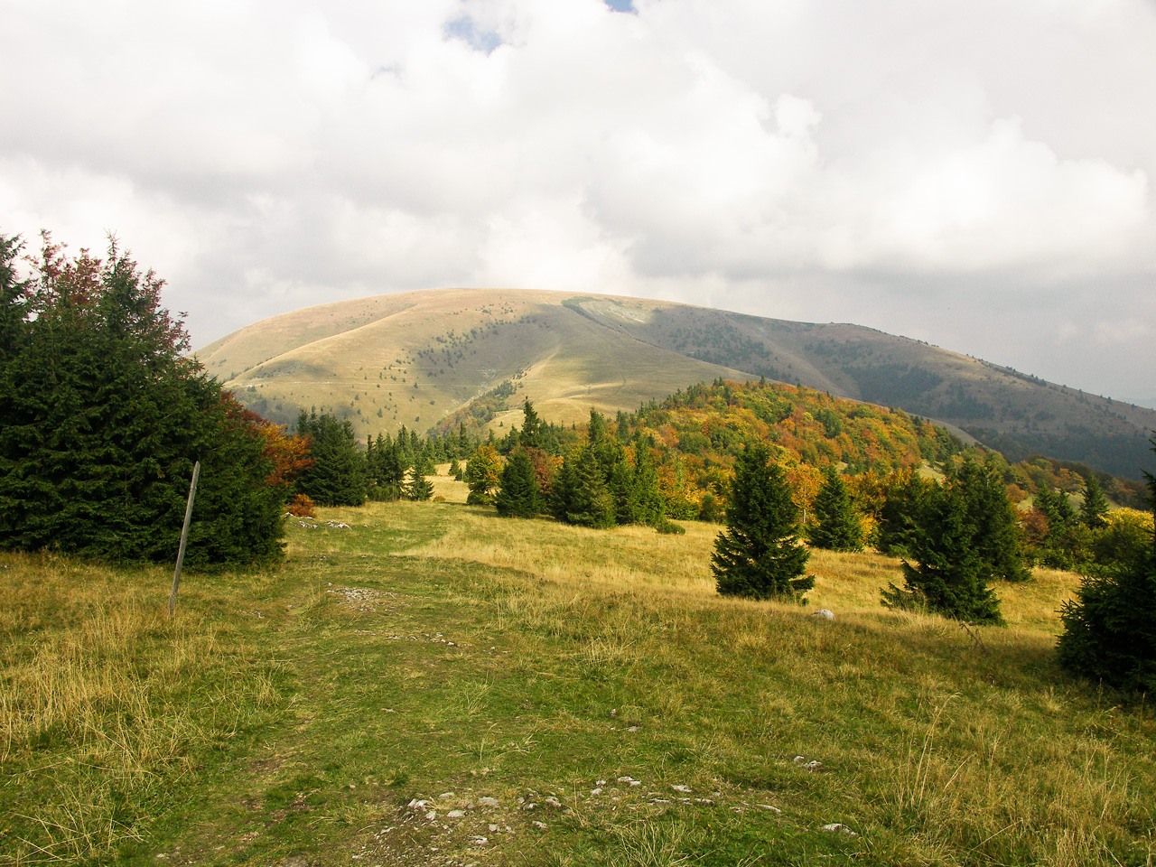 Ploská Mountain from under Kýšky Maountain, Greater Fatra Range, Slovakia